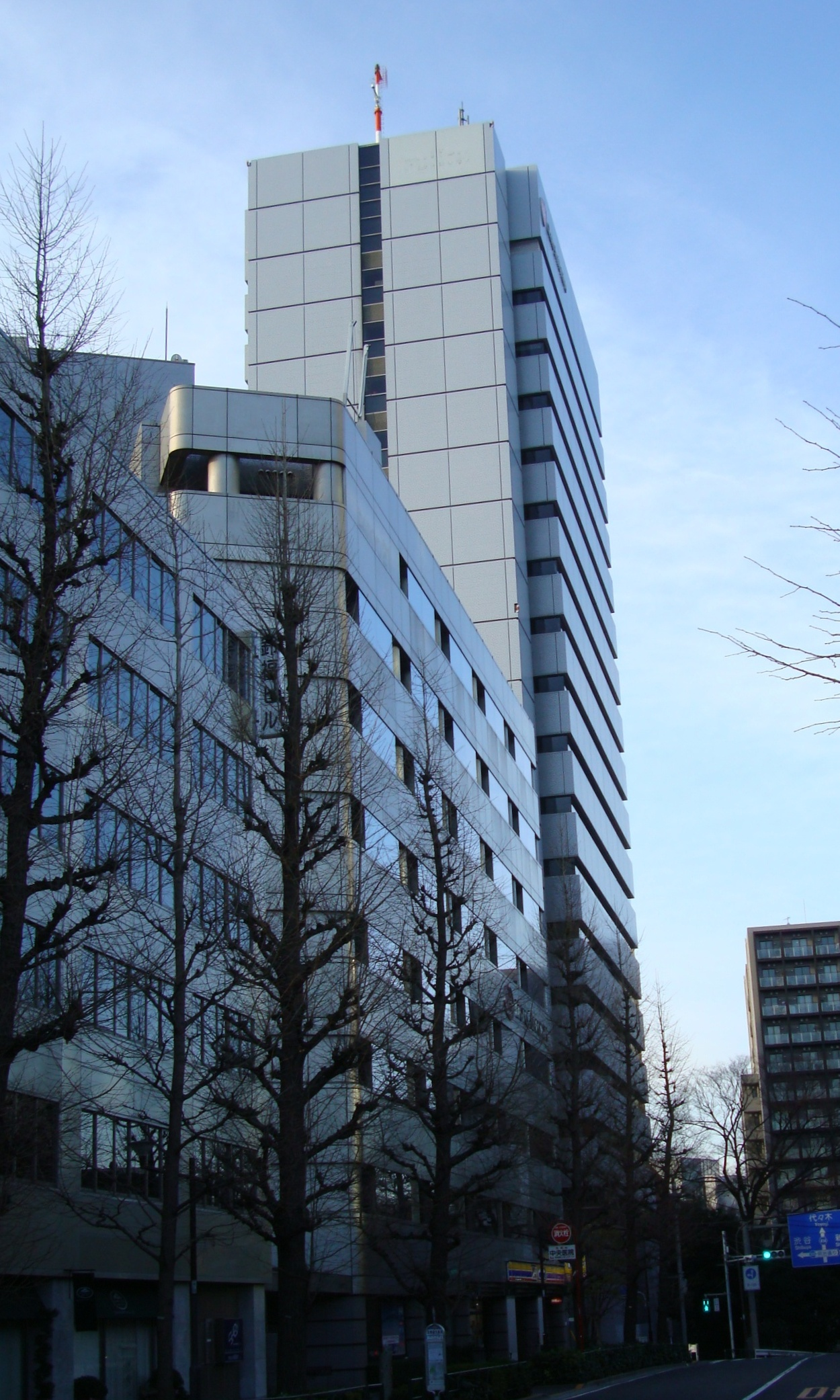 GSK building. Sendagaya, Tokyo